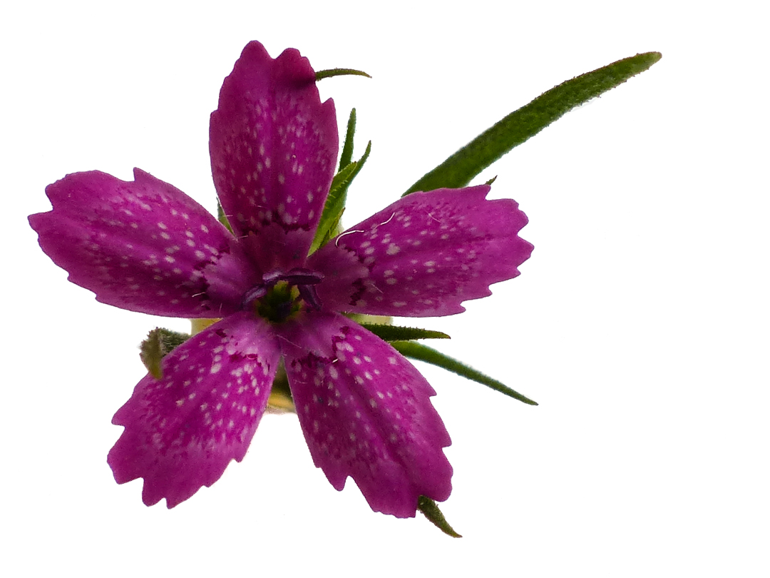 close up of deptford pink flower